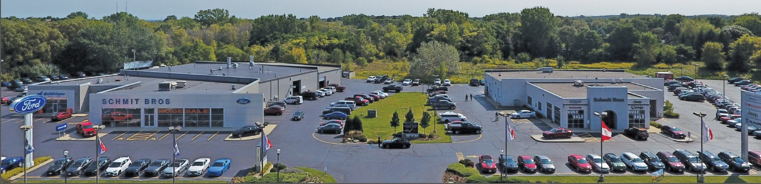 Schmit Bros., Saukville Wisconsin. Family Owned Dealership Since 1912